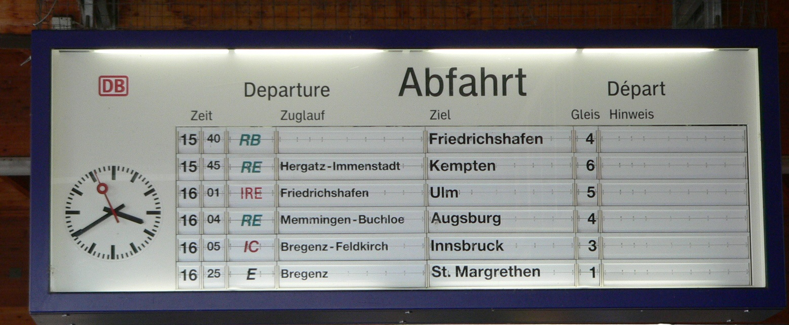 Split-flap display in Lindau, Germany